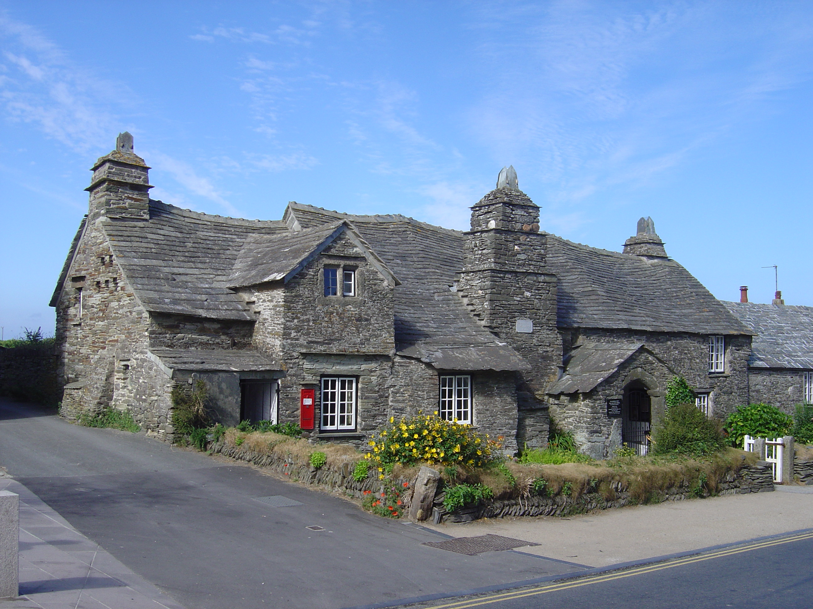 Photo of Tintagel Old Post Office by User:Zaian.